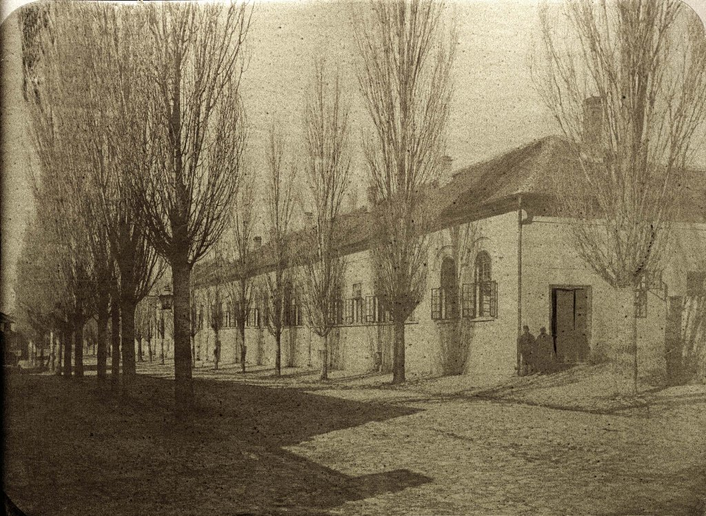 Higher girls' school in Belgrade. The school was located at the Queen Natalia street. It was built in 1865 and demolished in 1930.